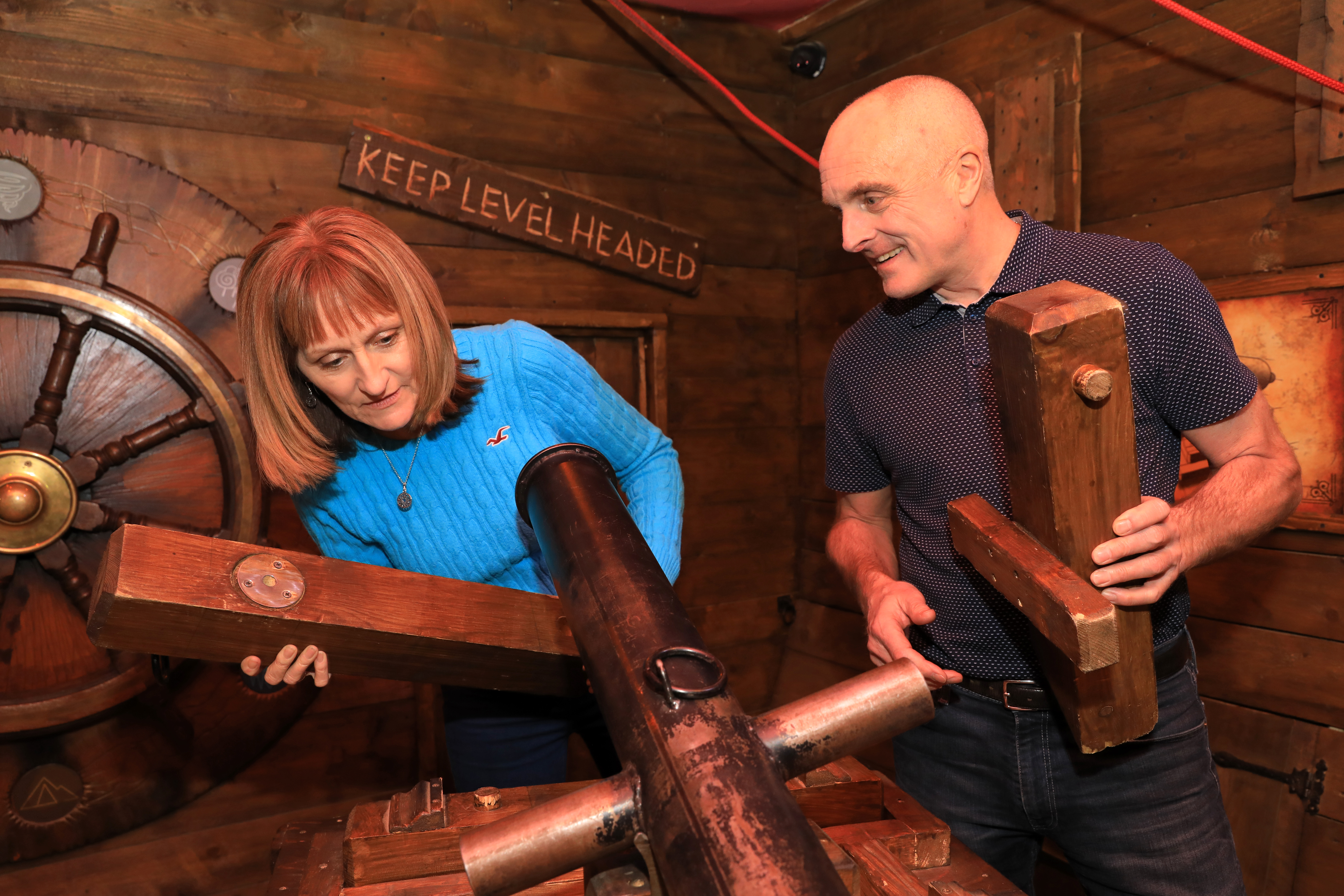 Tulleys Farm Outfitter Escape Room